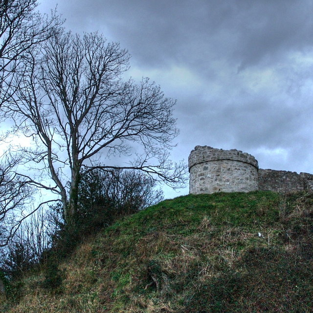 Castell Aberlleiniog The contrast between the old stonework, and the recently restored stonework (tower). It is thought that the original castle built around the C. 11 was made of wood. The stone constructed castle was built during the Civil War.